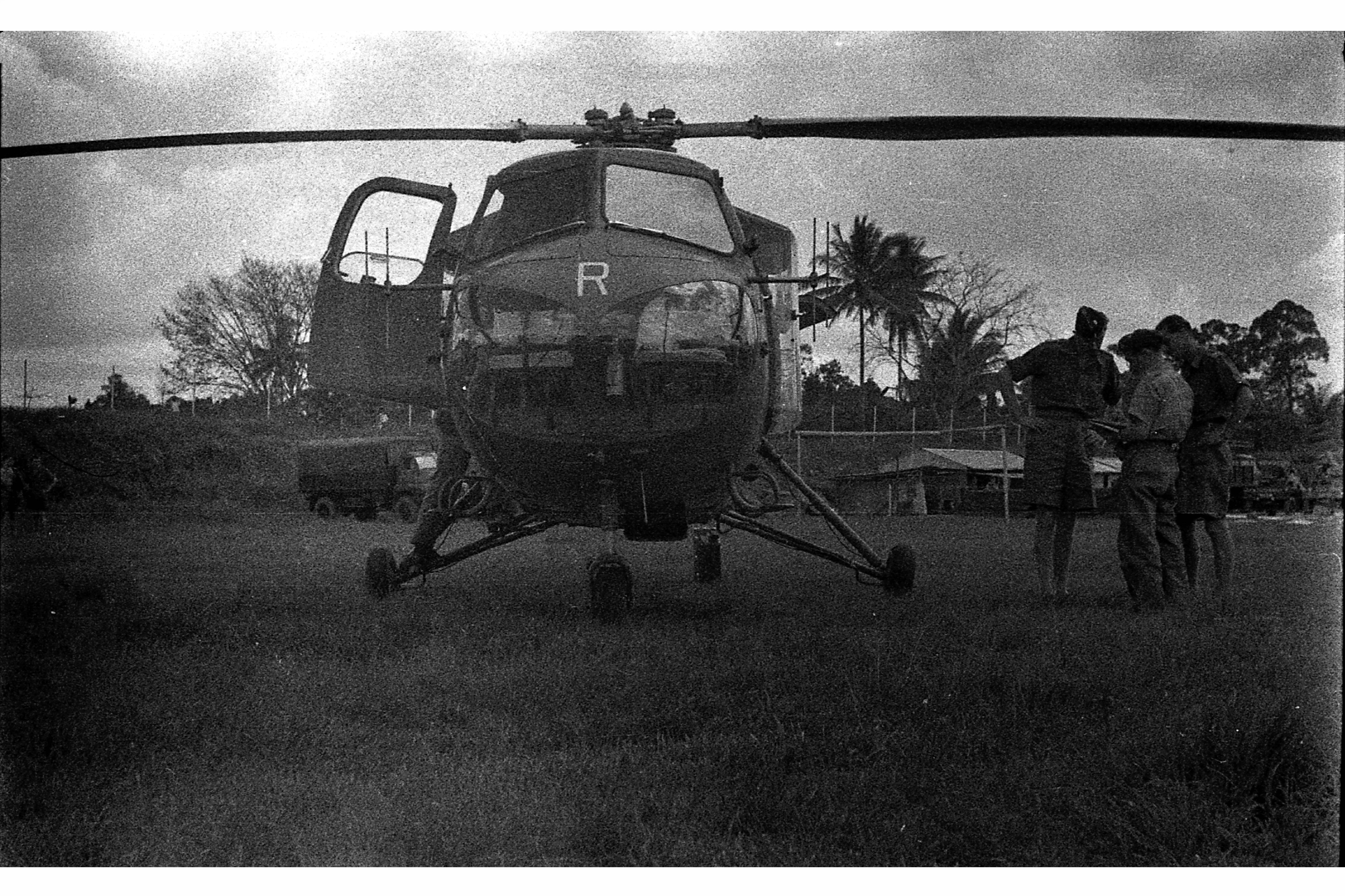 A Bristol Sycamore Helicopter, as photographed by Paul Hadfield during his time in the HM Forces.